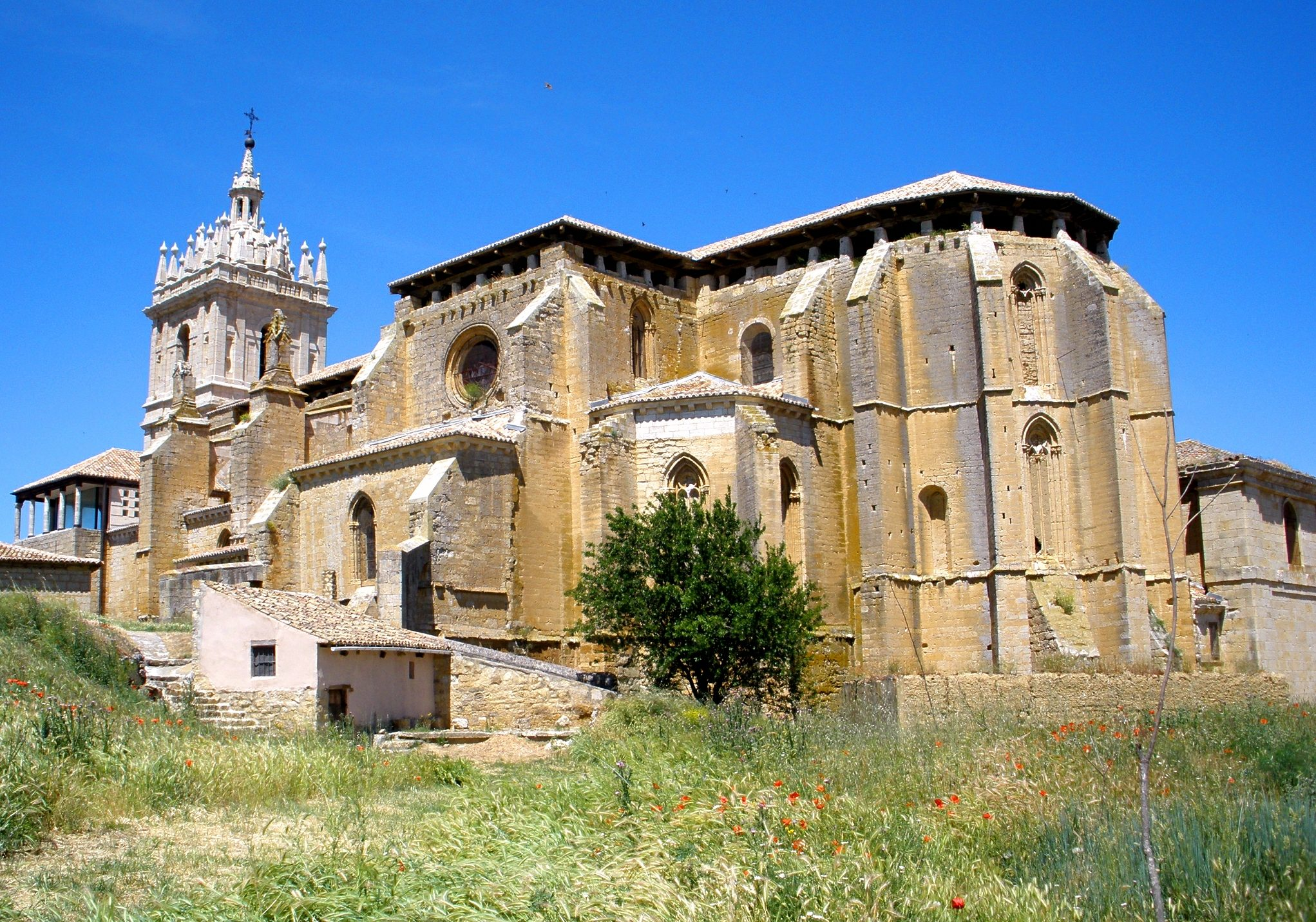 iglesia de San Hipólito el Real, en Támara de Campos (Palencia, Castilla y León, España)